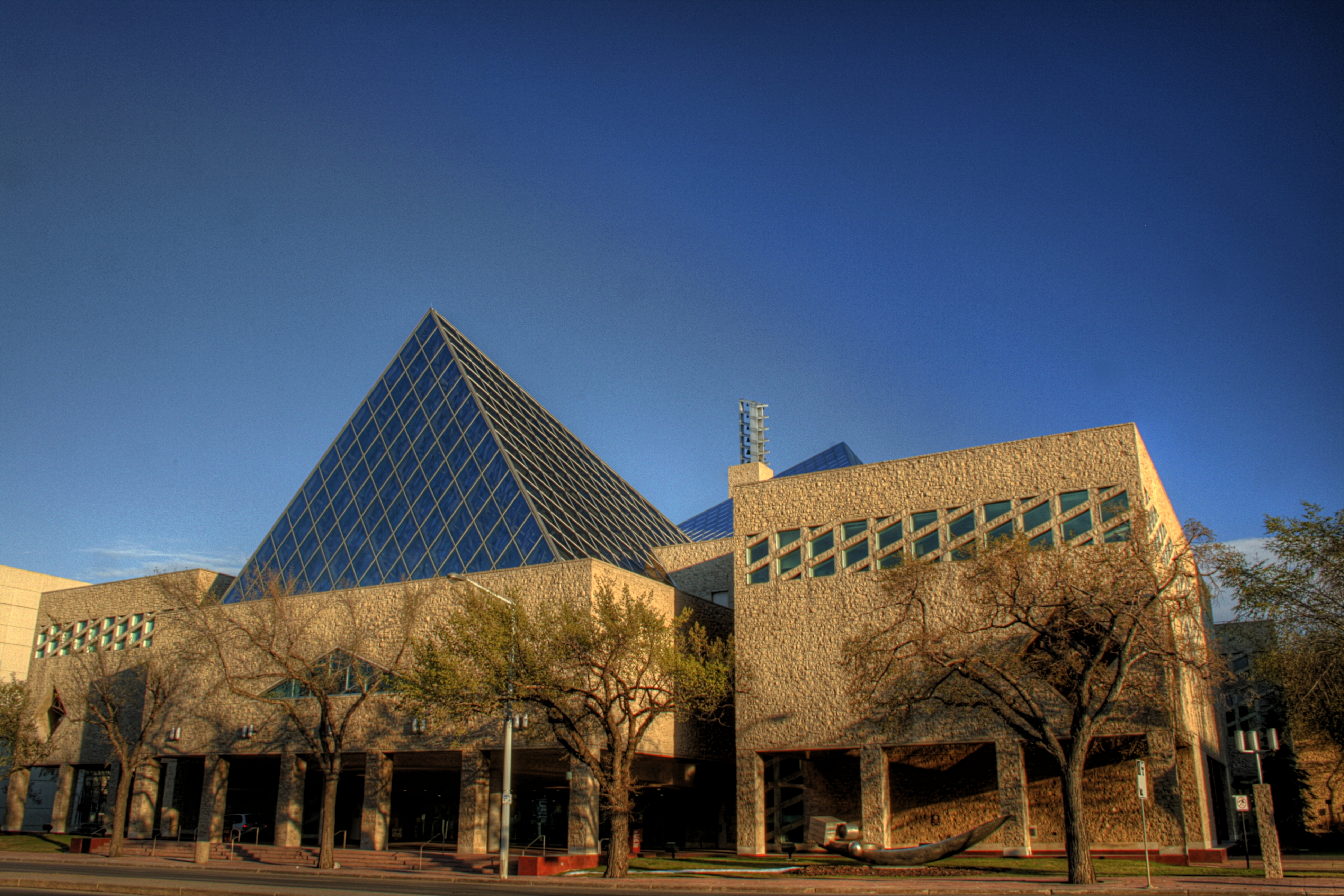 The Edmonton City Hall building in Edmonton, Alberta, Canada.